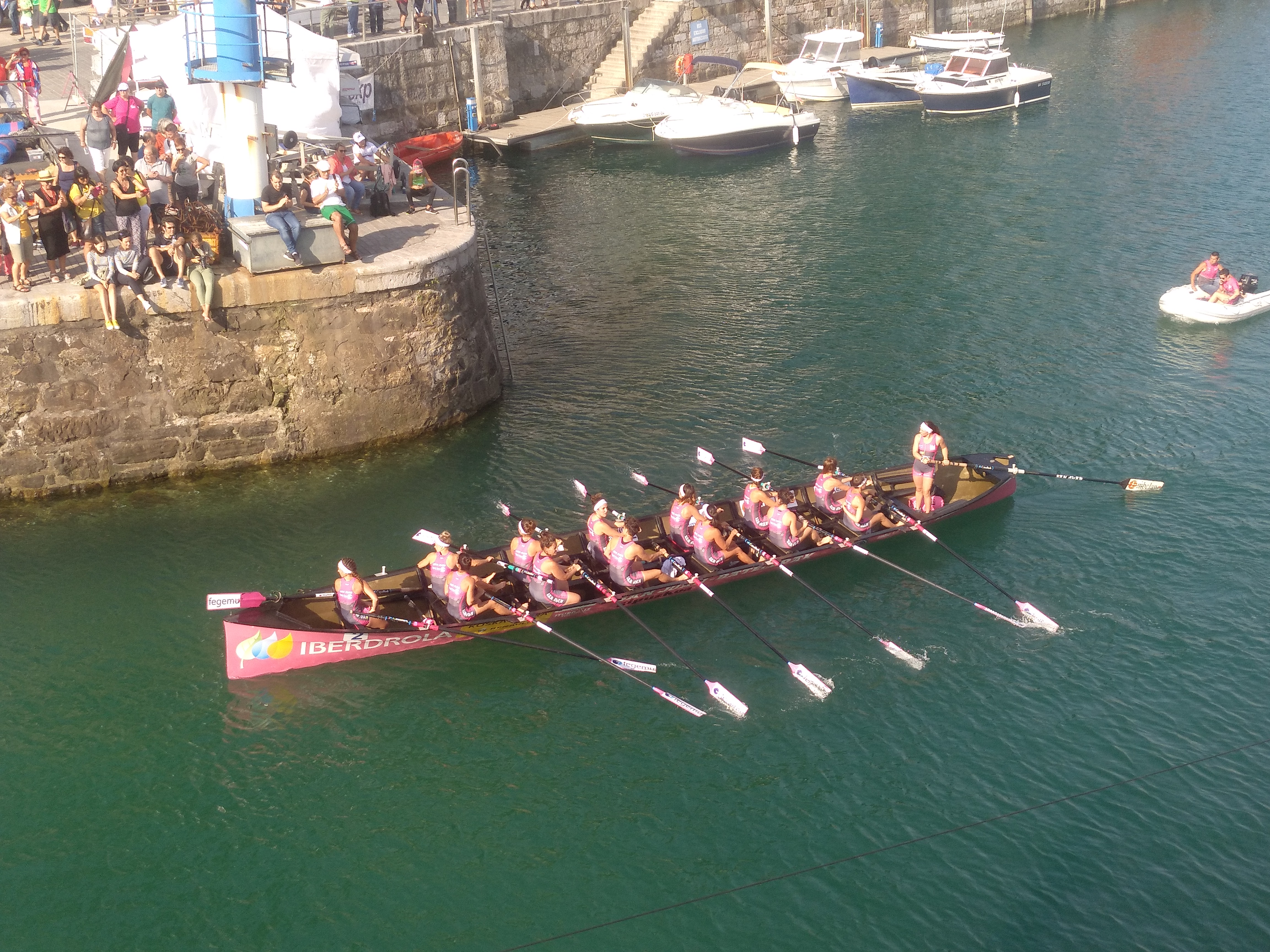 San Juan Batelerak, women, Flag of La Concha, 2018